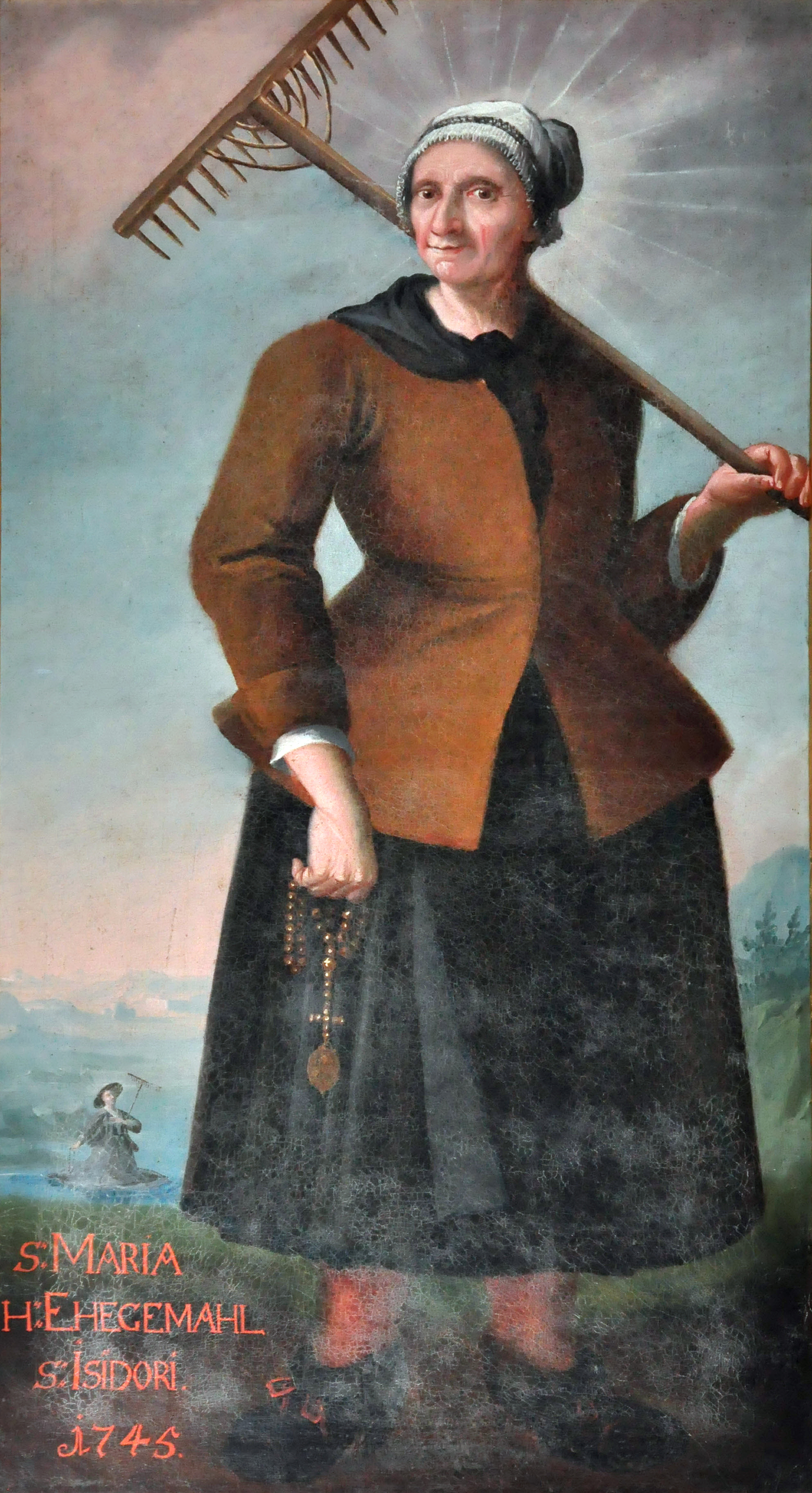 Oil painting "Saint Mary, wife of Saint Isidore the Laborer" in the parish church Saint Nicholas in Preitenegg, municipality Preitenegg, district Wolfsberg, Carinthia, Austria, EU}